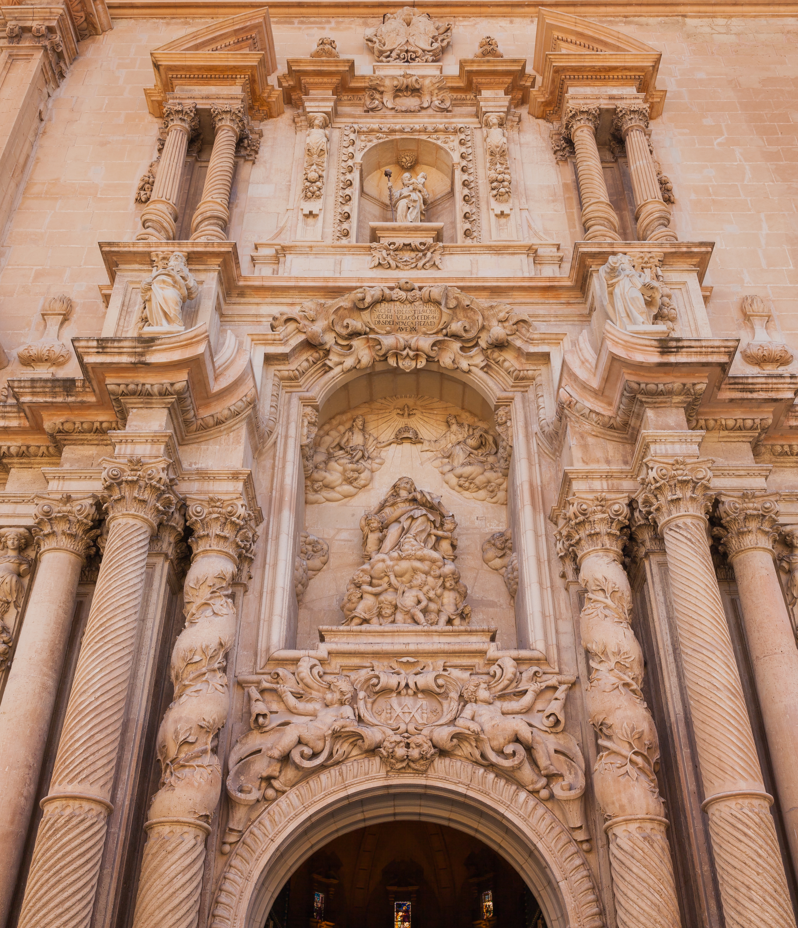 St Mary Basilica, Elche, Spain